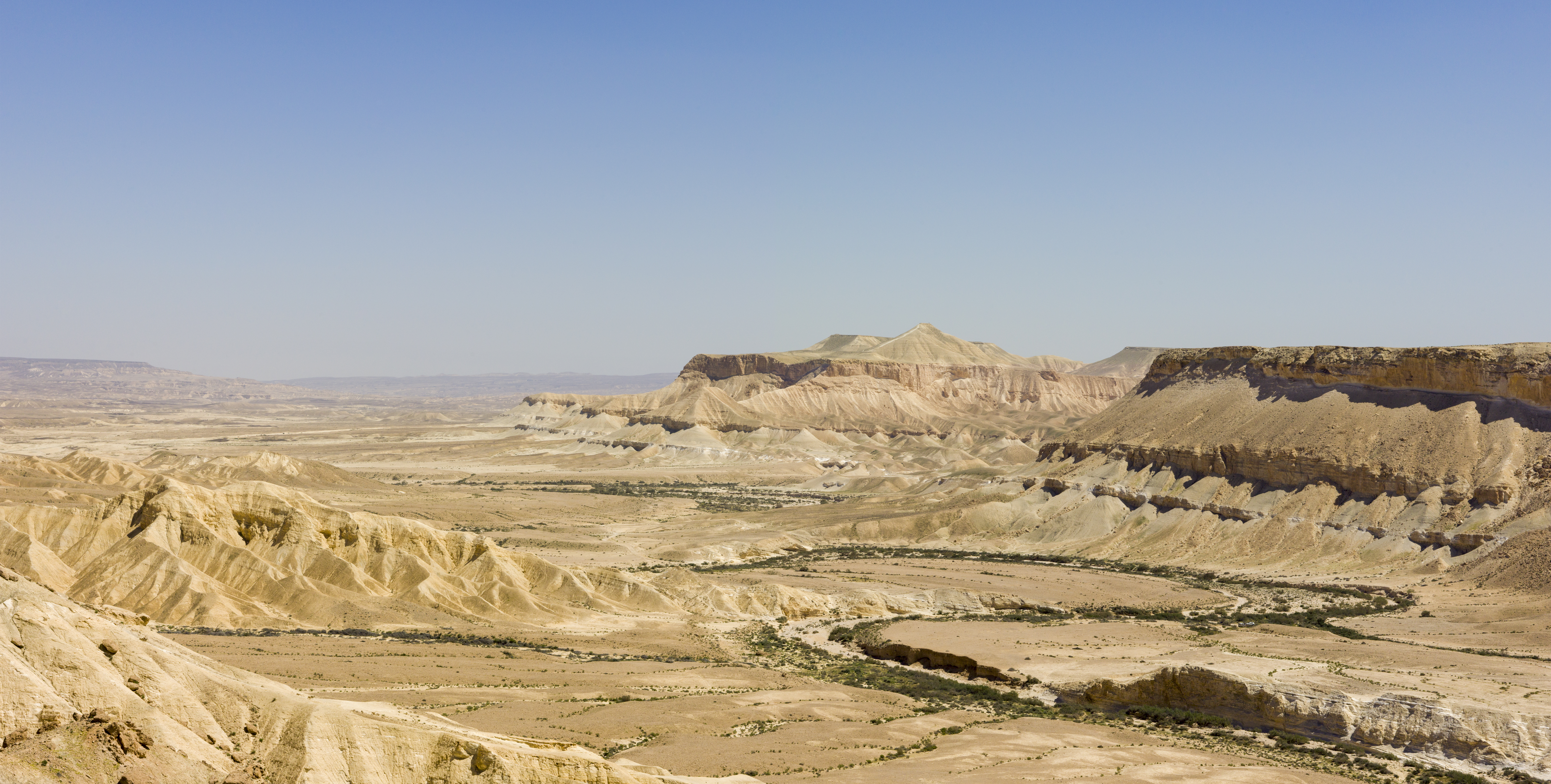 View of Ein Avdat (Hebrew: עין עבדת) in the Zin Valley of the Negev desert.